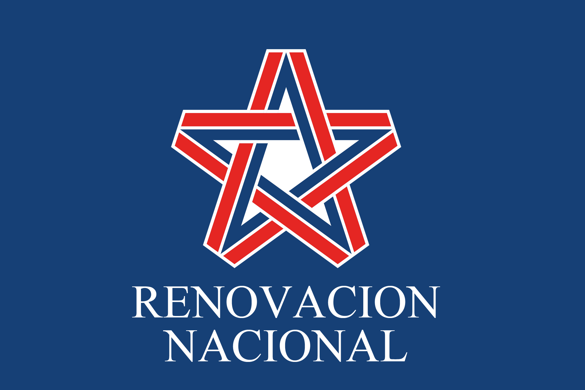 Flag of Renovación Nacional